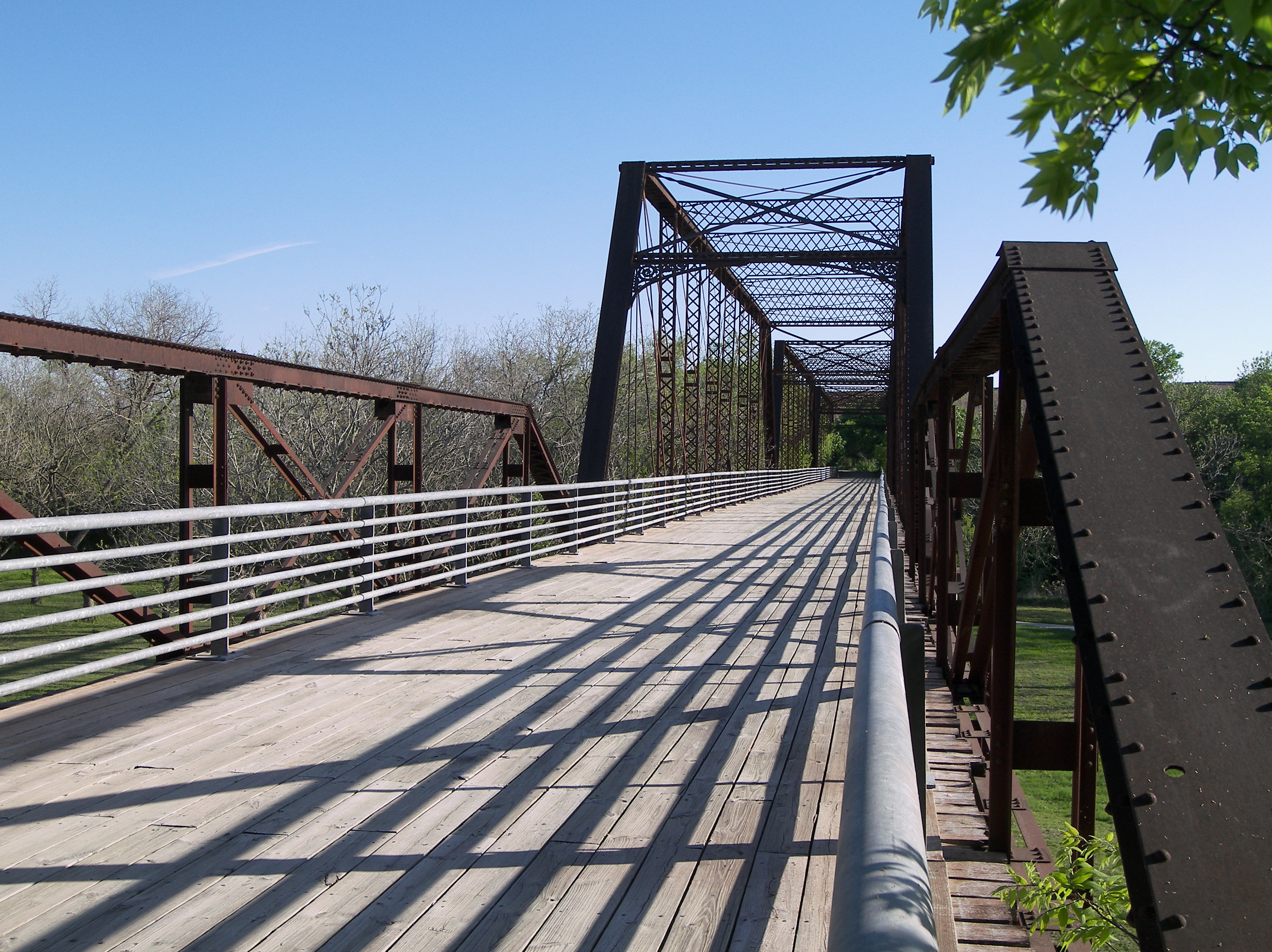 The current bridge at Moore's Crossing located in Travis County, Texas, United States was completed in 1922 and is made from spans of the 1884 Congress Avenue Bridge from Austin.